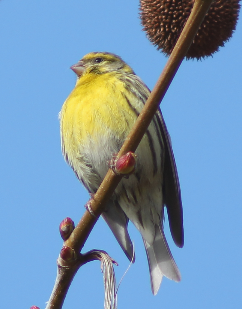 A male European Serin (Serinus serinus) in Madrid (Spain).